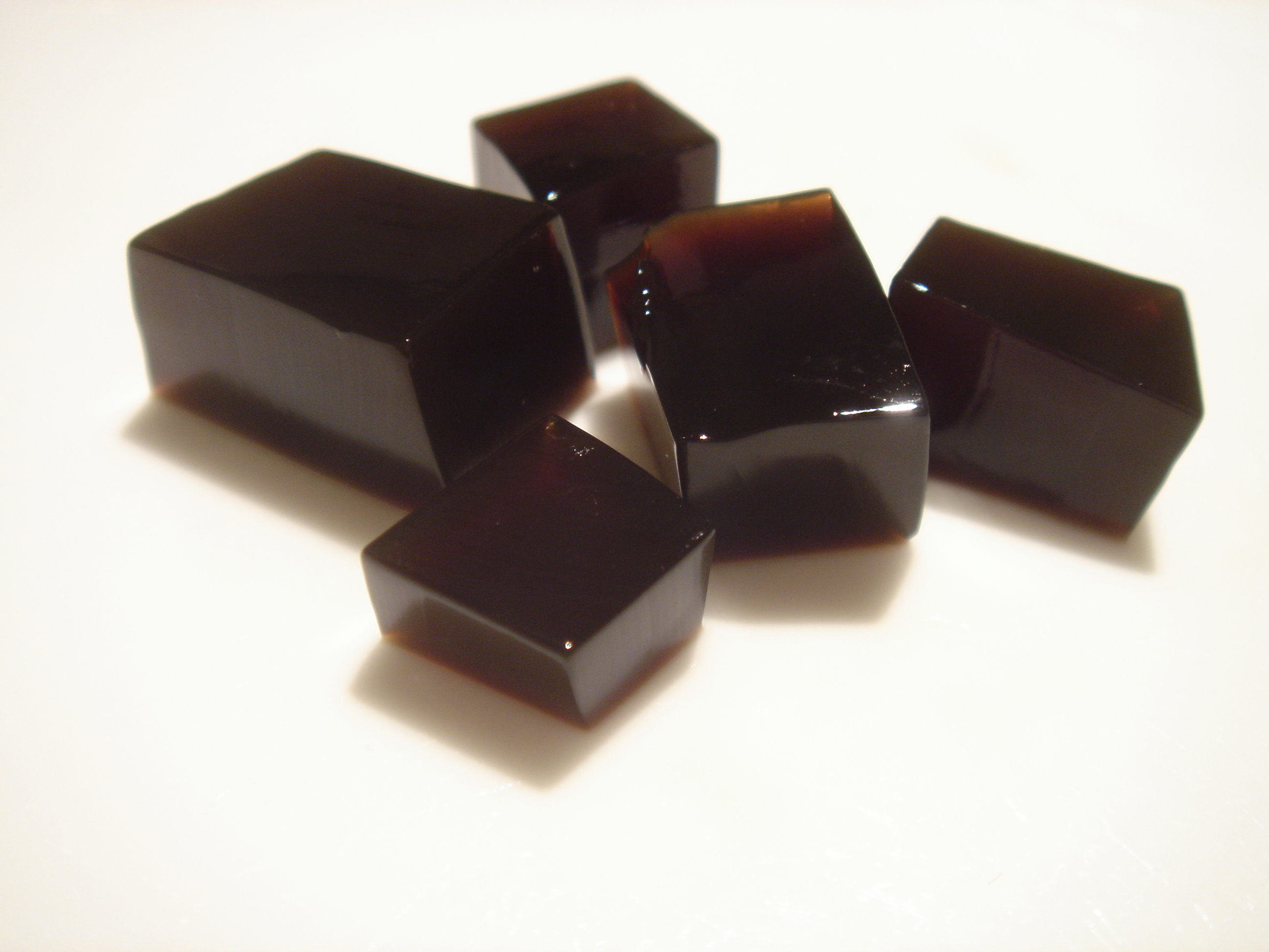 Small 1cm sized grass jelly chunks